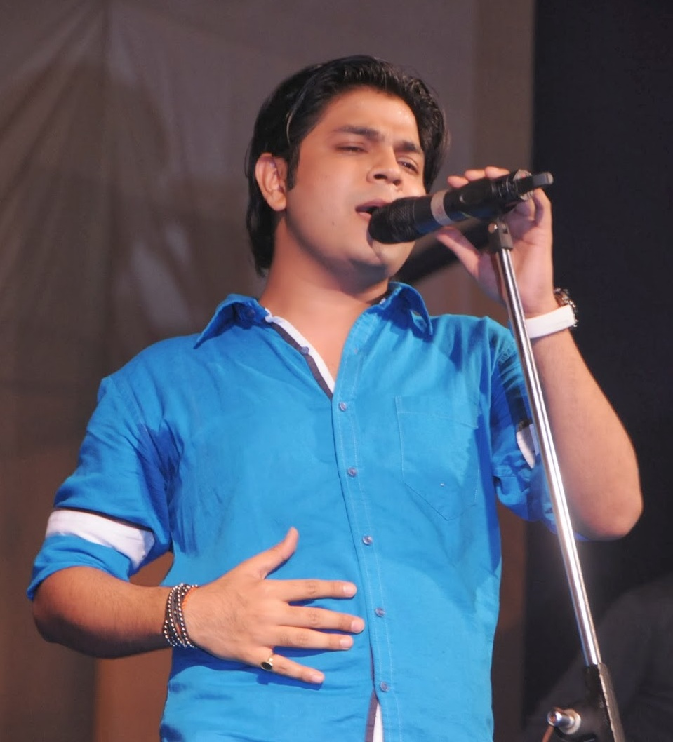 Ankit Tiwari during Dussera celebration at Andheri Durgautsav